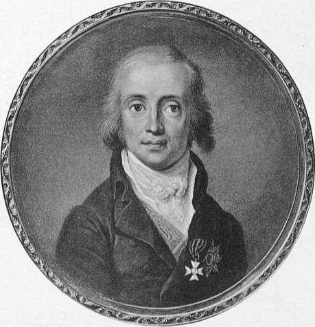 Baron Andrey Yakovlevich Budberg (1750-1812), Military Governor of S-Peterburg (1803), Foreign Minister of Russia (1806-1807). With cross of the Order of St. George and star of the of the Order of St. Alexander Nevsky